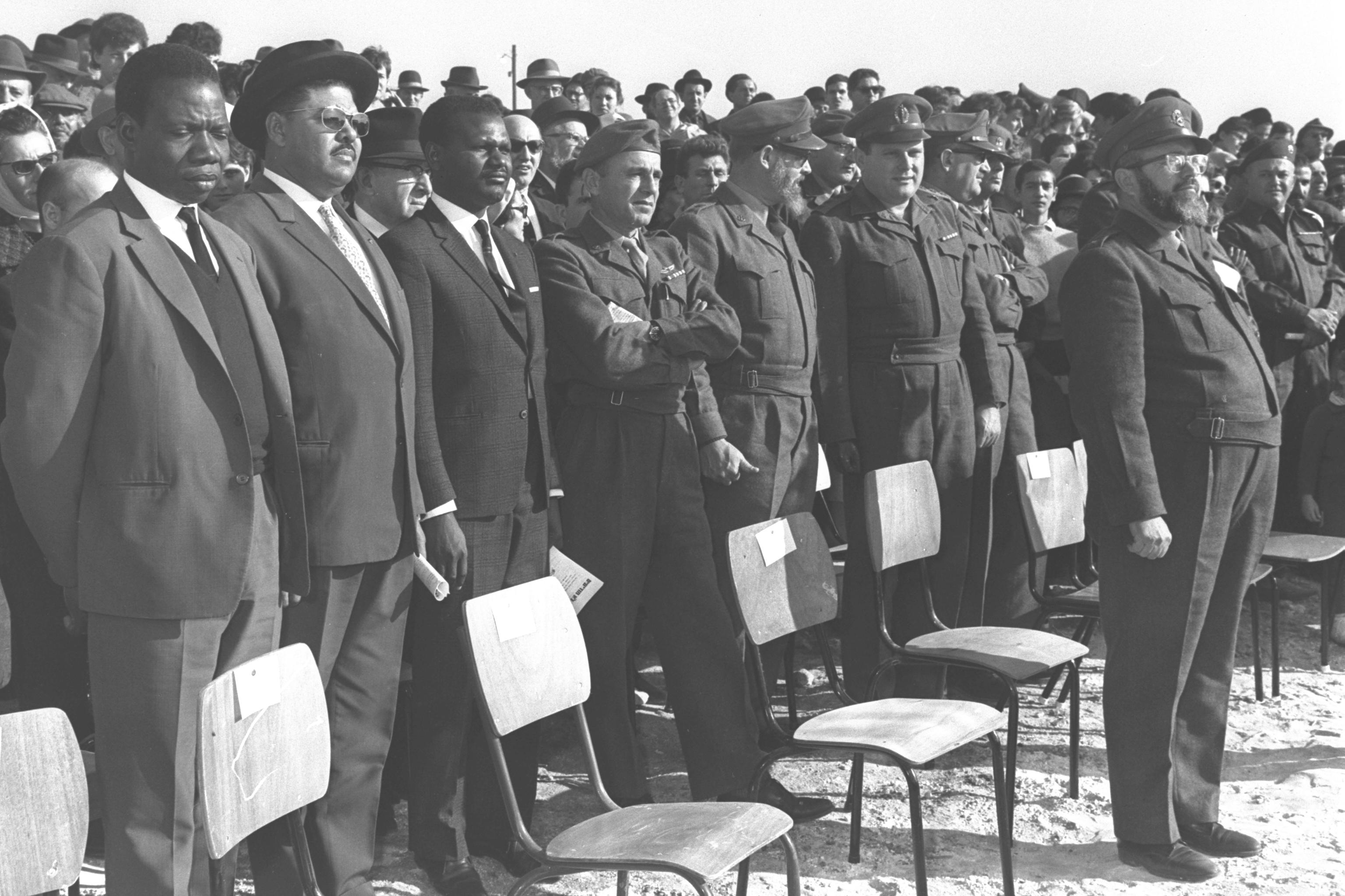 PARENTS, ARMY OFFICERS AND FOREIGN VISITORS ATTENDING CEREMONY OF INAUGURATION OF NEW RELIGIOUS SETTLEMENT MODIIM.